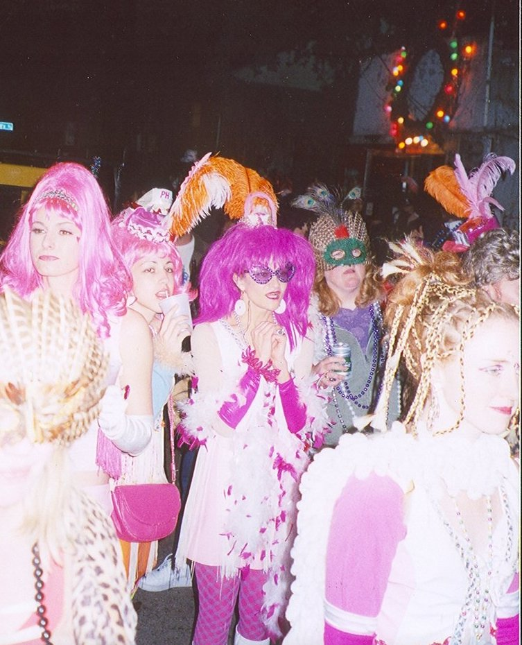 Costumed dancers, New Orleans Carnival Those in pink are members of the "Pussyfooters" dance troupe. This was at the Krewe of OAK parade in the Carrollton neighborhood of uptown New Orleans, shown here on a stop outside of Snake & Jakes Christmas Bar (entrance under the lighted wreath). Photo by Infrogmation, 4 February, 2005.